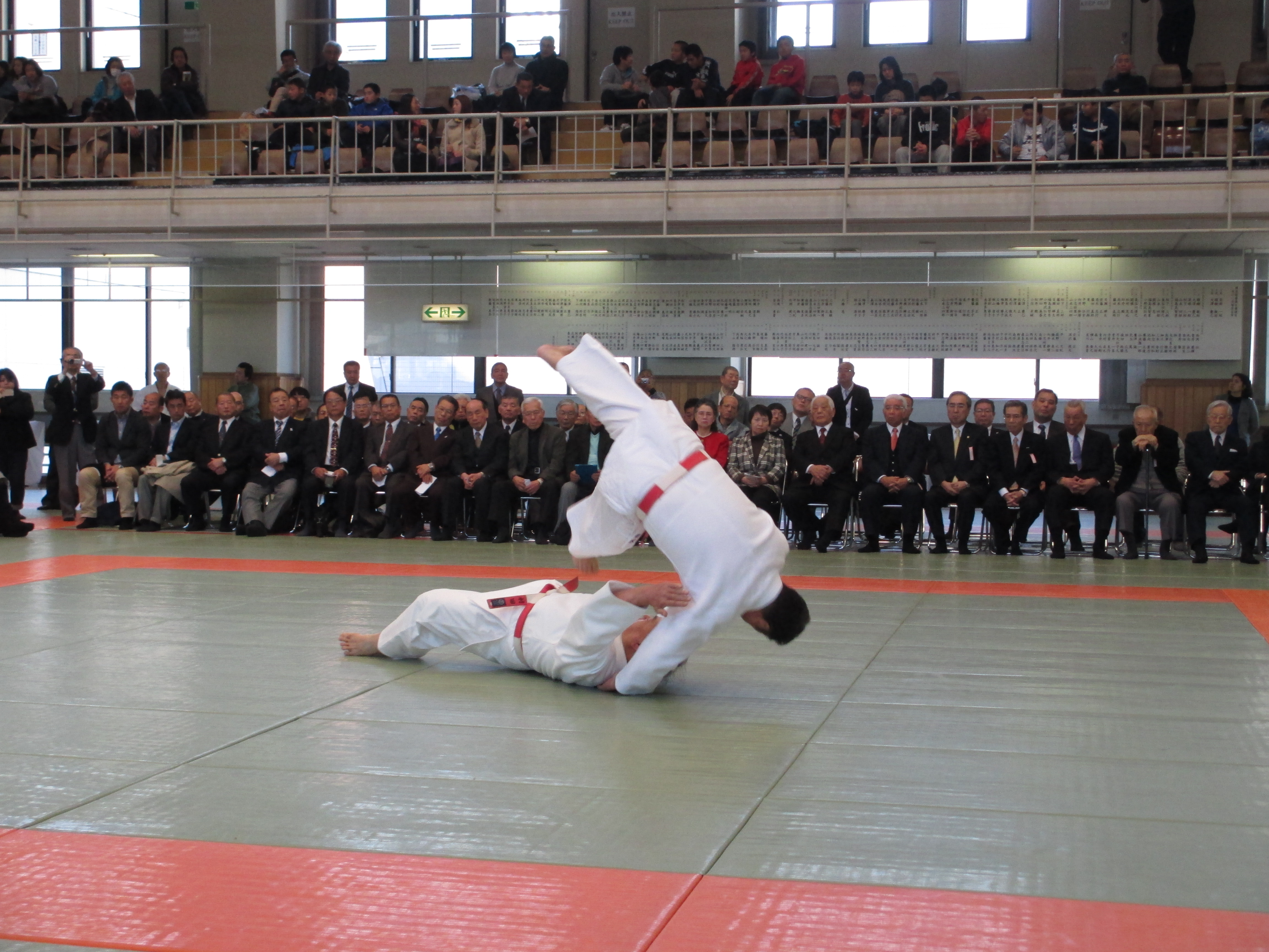 Koshikinokata